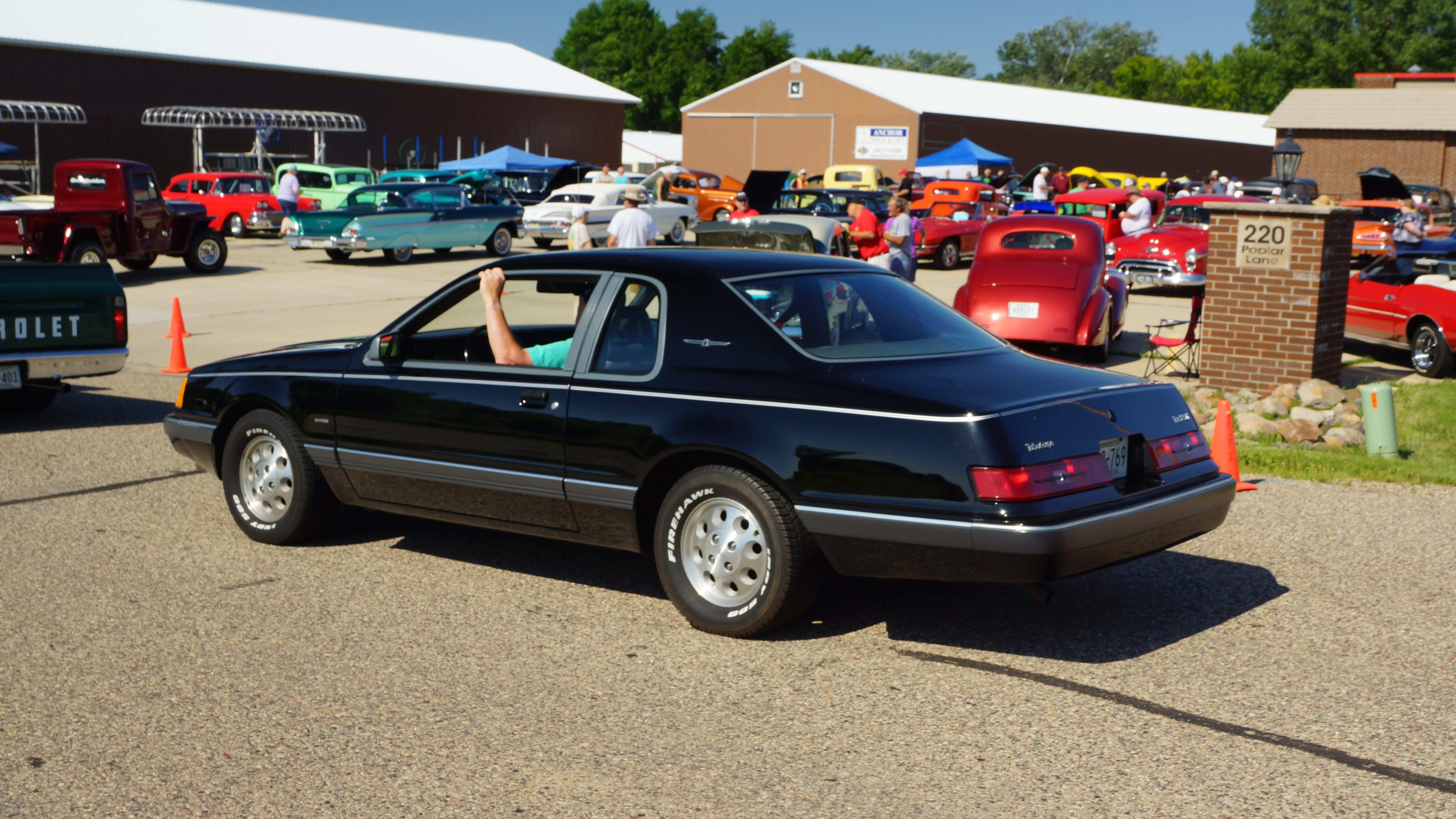 Classic Rides & Rods Classic Car Show 220 Poplar Lane Annandale, Minnesota July 8, 2018 *Click here for more car pictures by make Click here for Car Event pictures by year. Or here for my Car Crazy Tumblr site. Or on Twitter @DVS1mn.